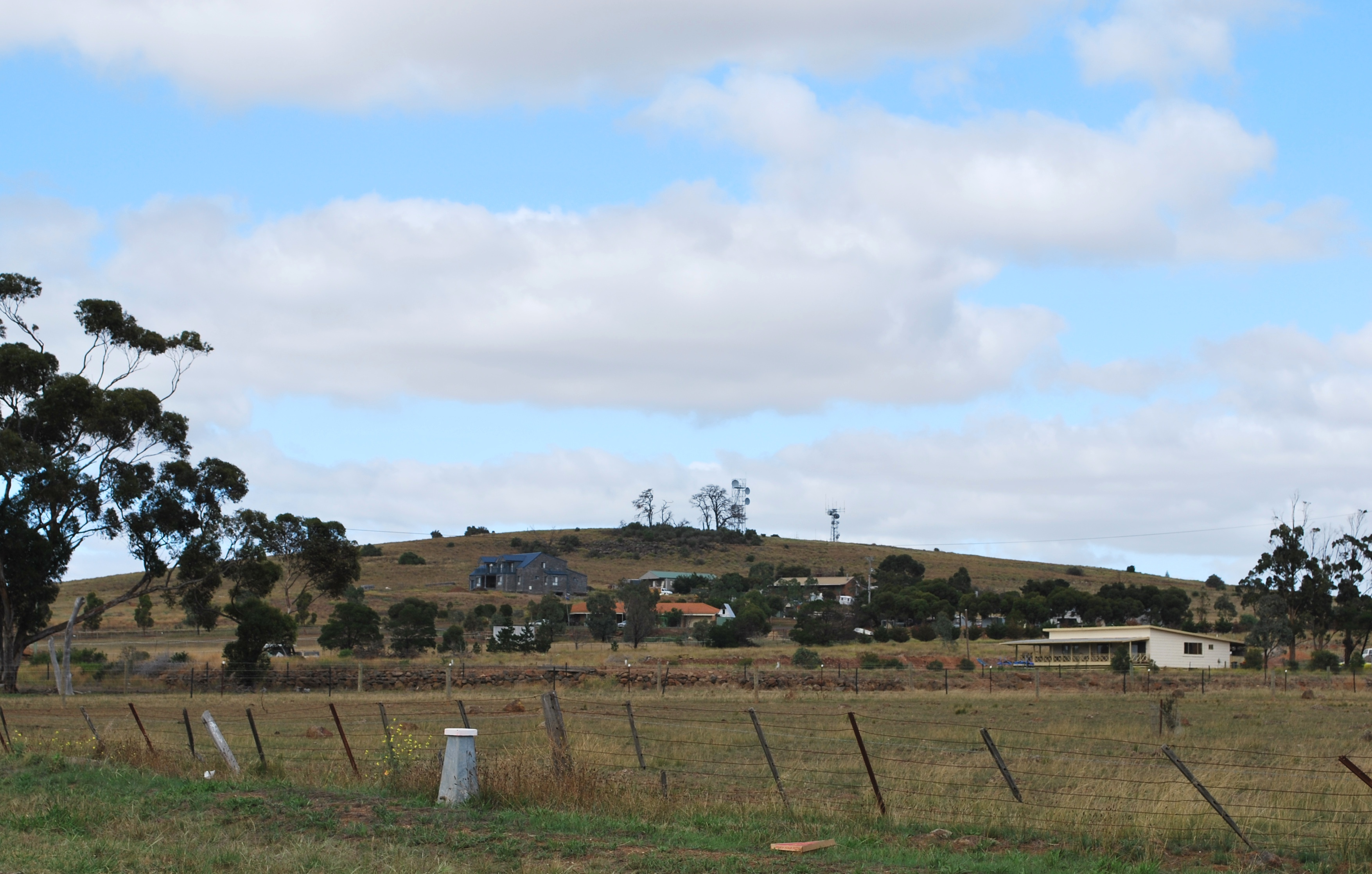 Mount Cottrell, Victoria, a 200m volcanic cone that has lent it's name to the locality